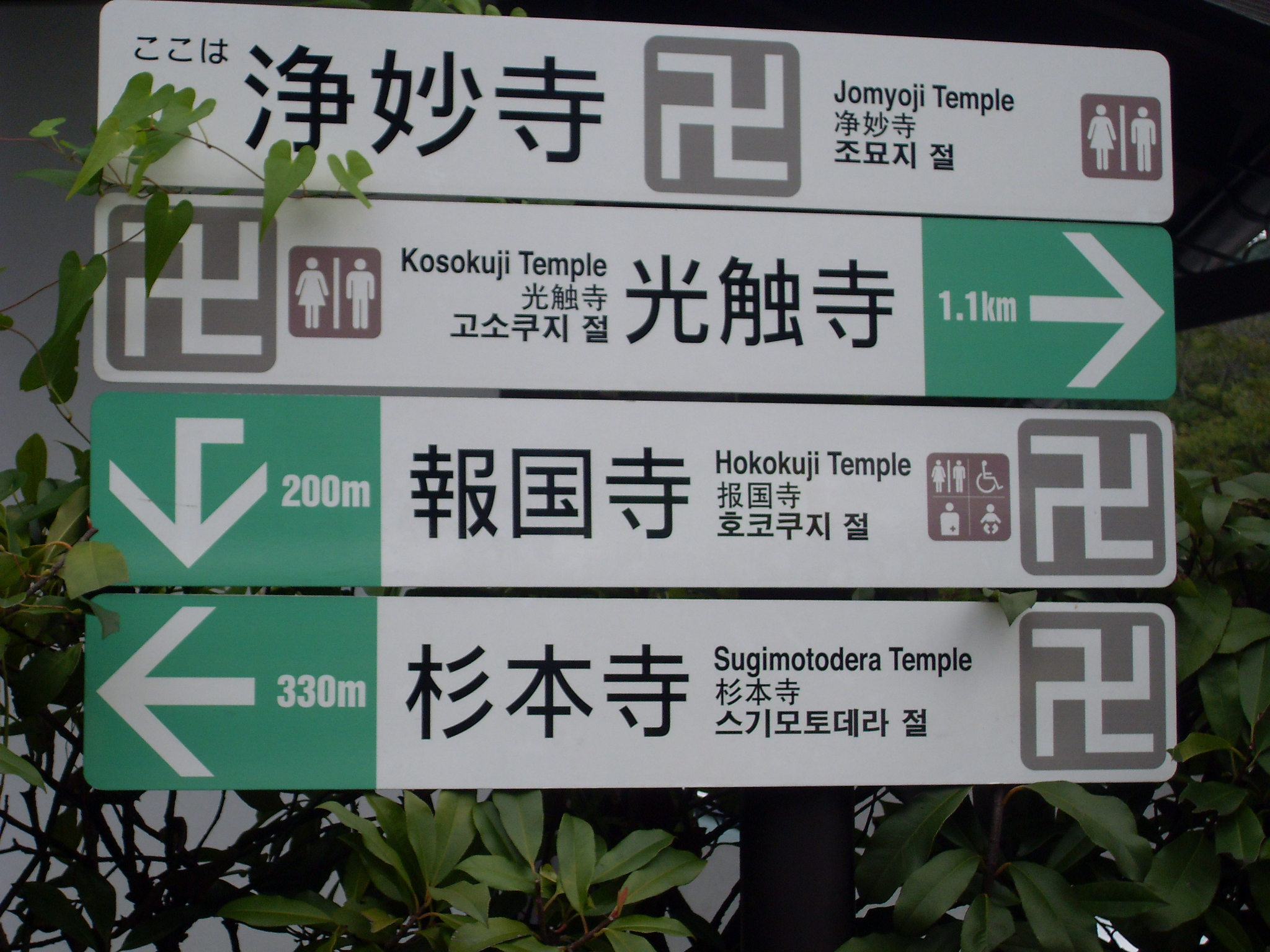 Tourist information showing the location of buddhist temples in Kamakura, Japan